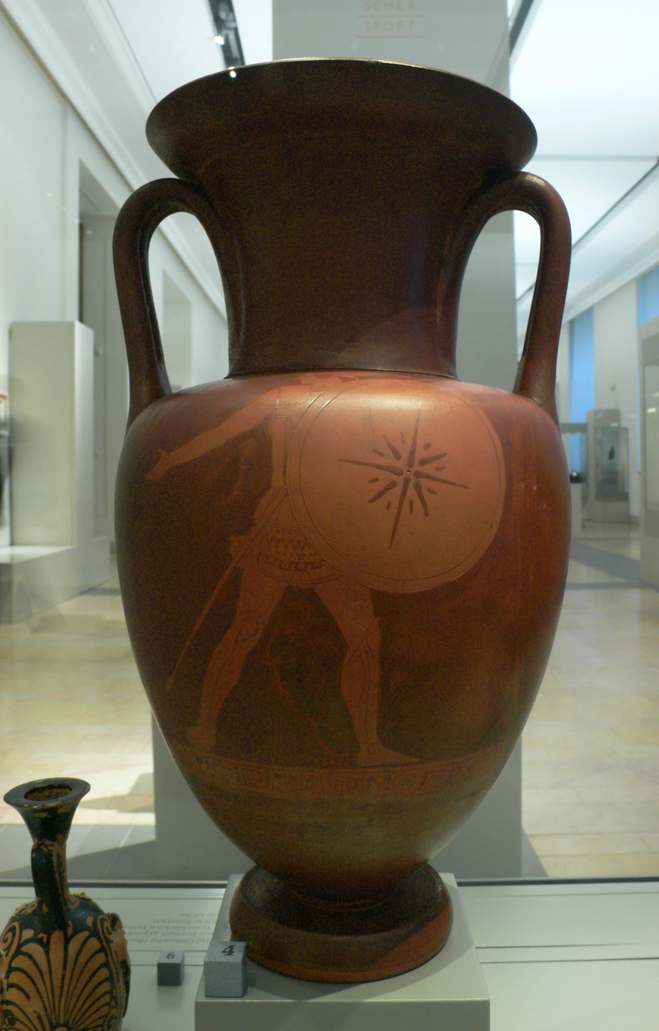 Misfired Attic red-figure amphora, related to Achilleus Painter, ca. 450 BC. Probably nevertheless sold: found in Nola (Campania). Altes Museum, Berlin, F 2332, Greek Art.